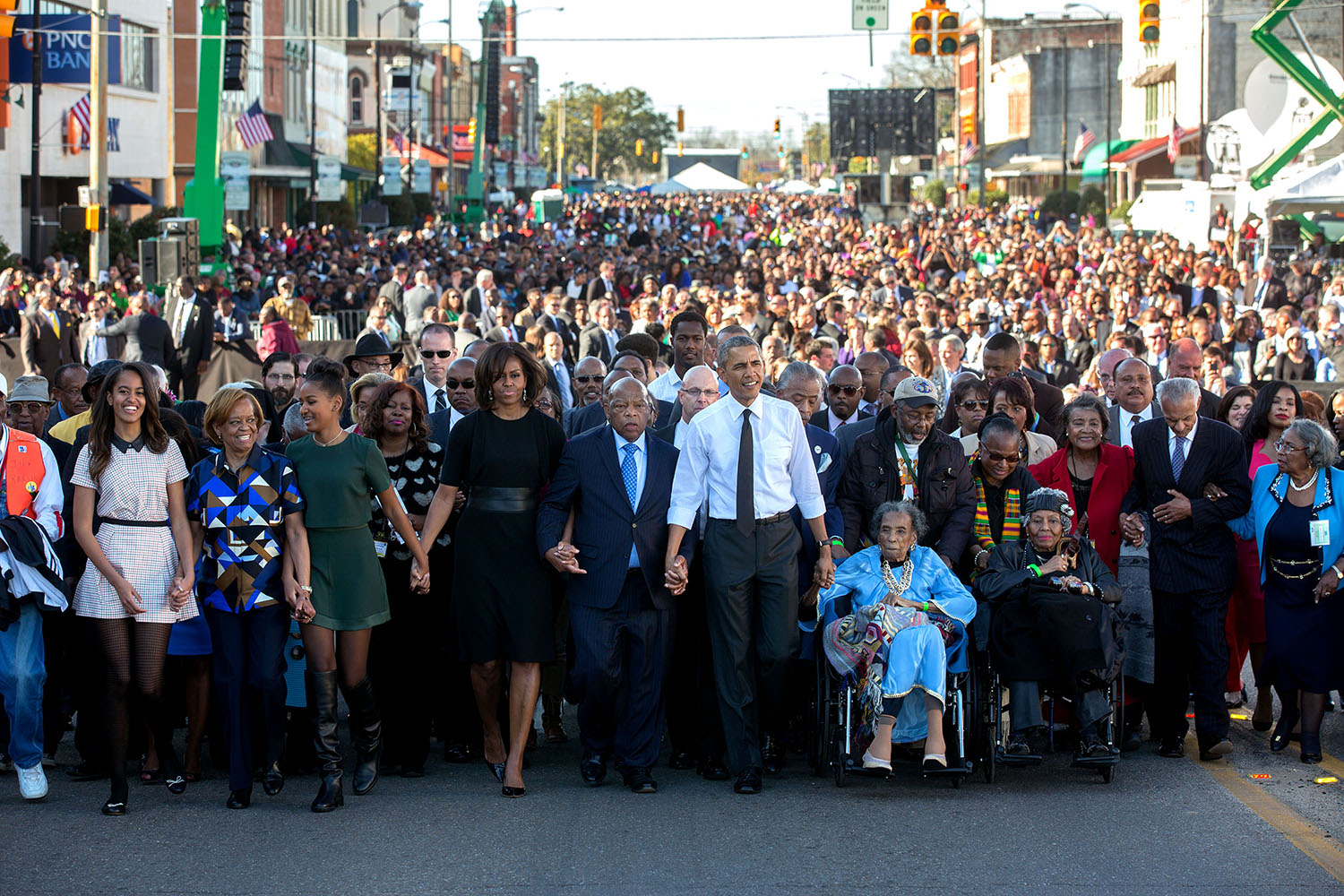 March 7, 2015 "For Presidential trips, I usually have another White House photographer accompany me so he or she can preset with the press and obtain angles that I can't, as I usually stay close to the President. Lawrence Jackson made this iconic image from the camera truck as the First Family joined others in beginning the walk across the Edmund Pettus Bridge." (Official White House Photo by Lawrence Jackson)